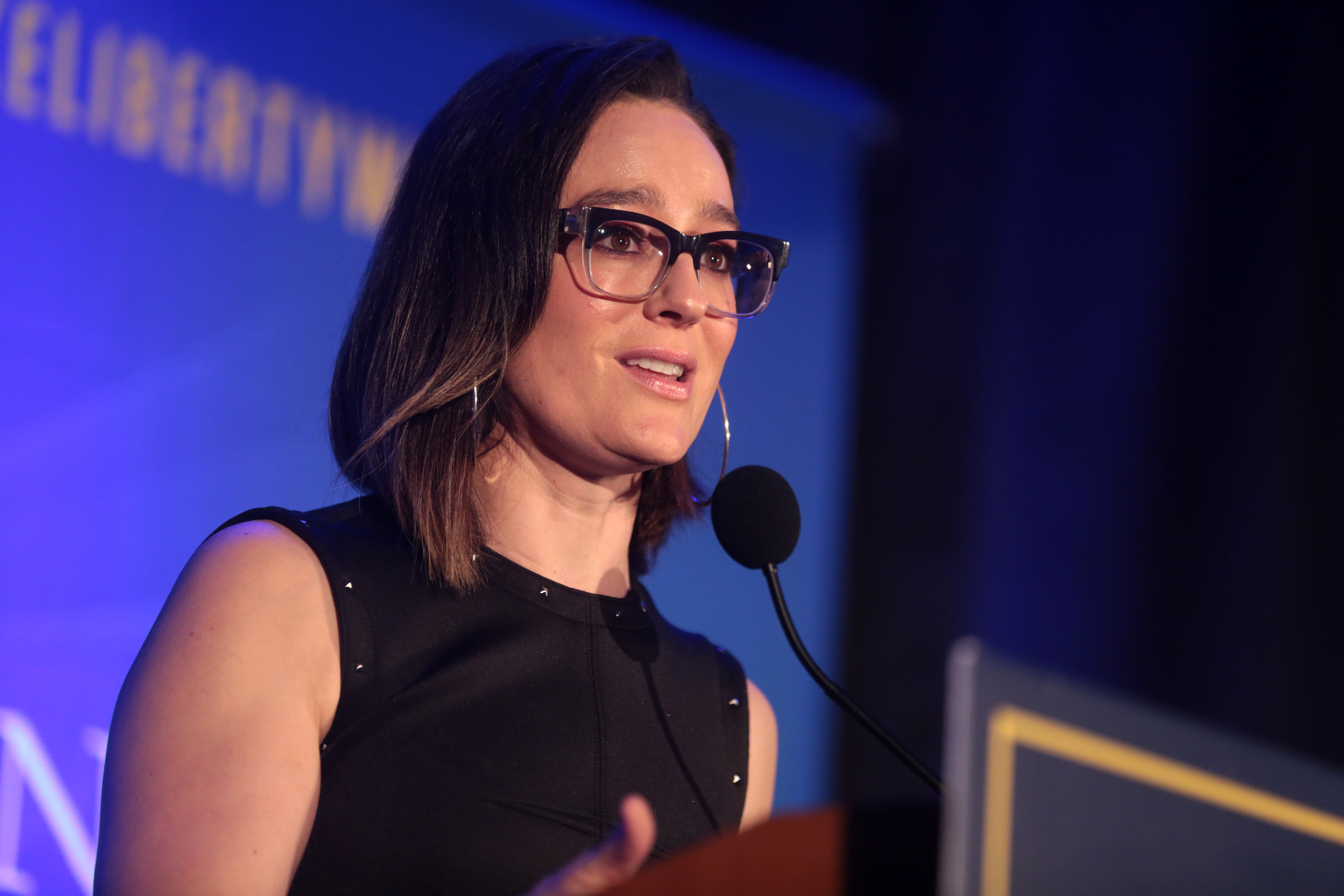 Lisa Kennedy speaking with attendees at the 2018 Young Americans for Liberty National Convention at the Sheraton Reston Hotel in Reston, Virginia.